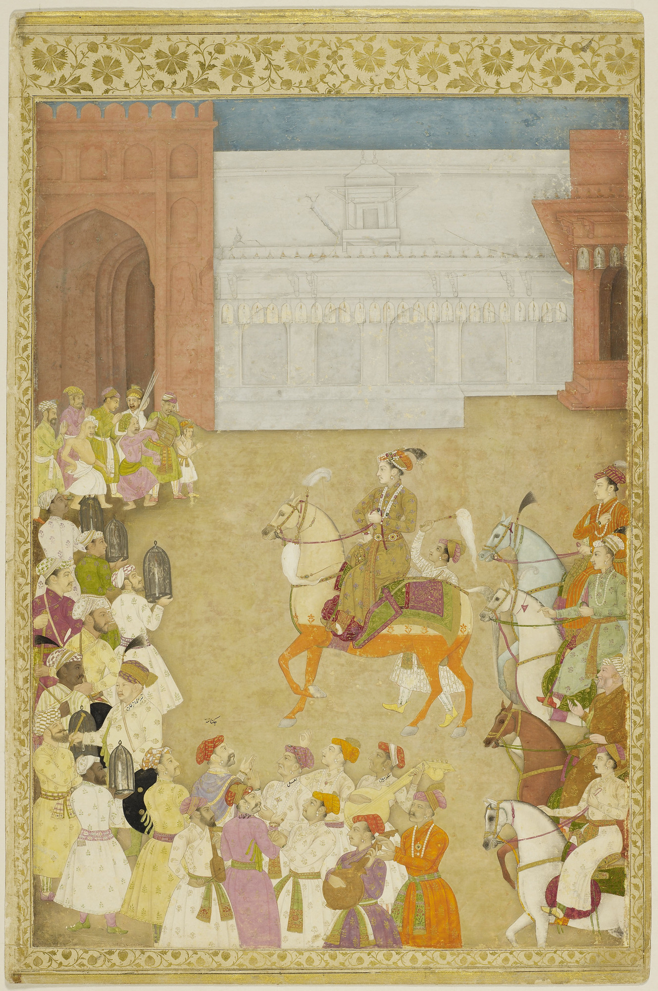 Wedding Procession of Dara Shikoh with his brothers Shah Shuja and Aurangzeb behind him.